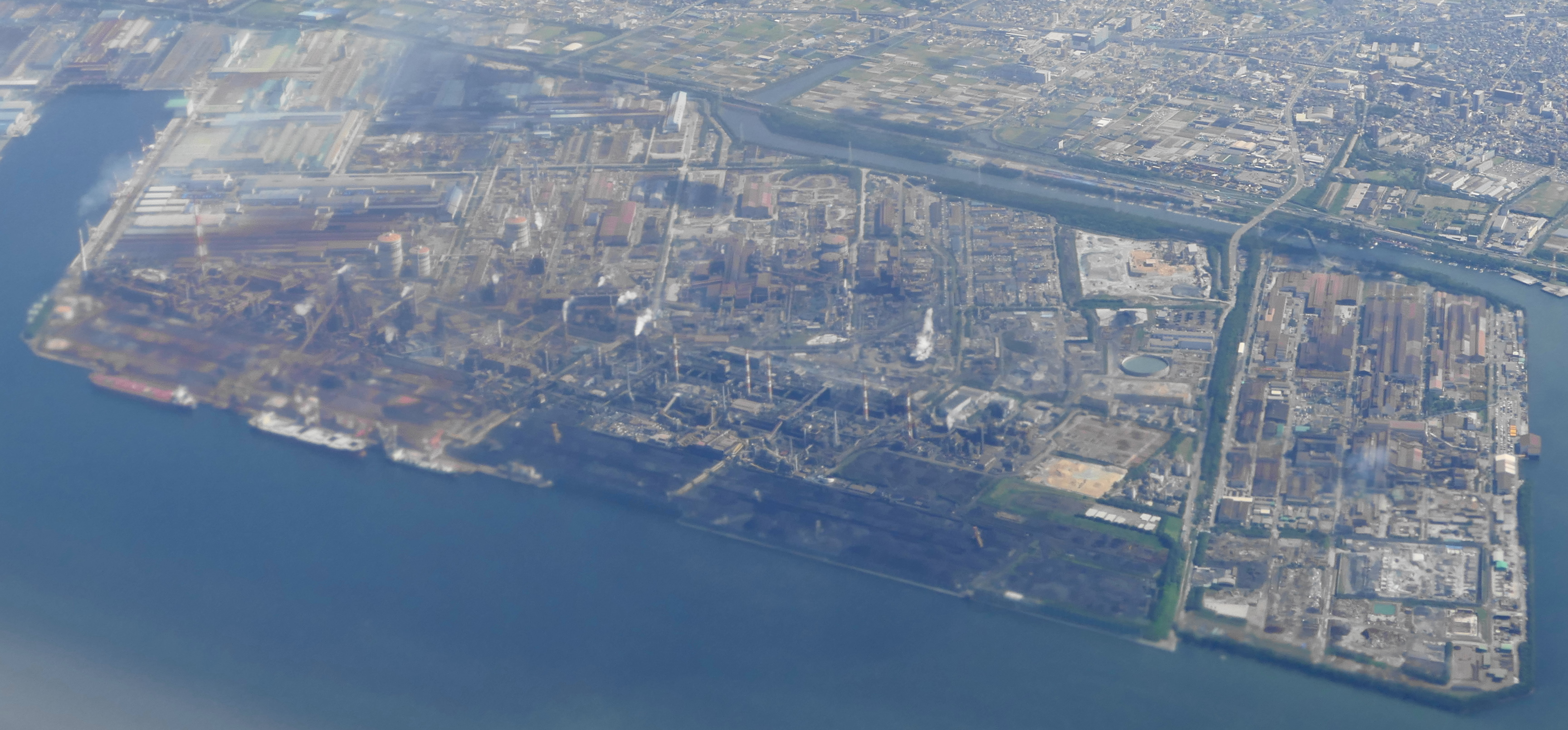 Nagoya works of NIPPON STEEL & SUMITOMO METAL,Aichi prefecture,Japan